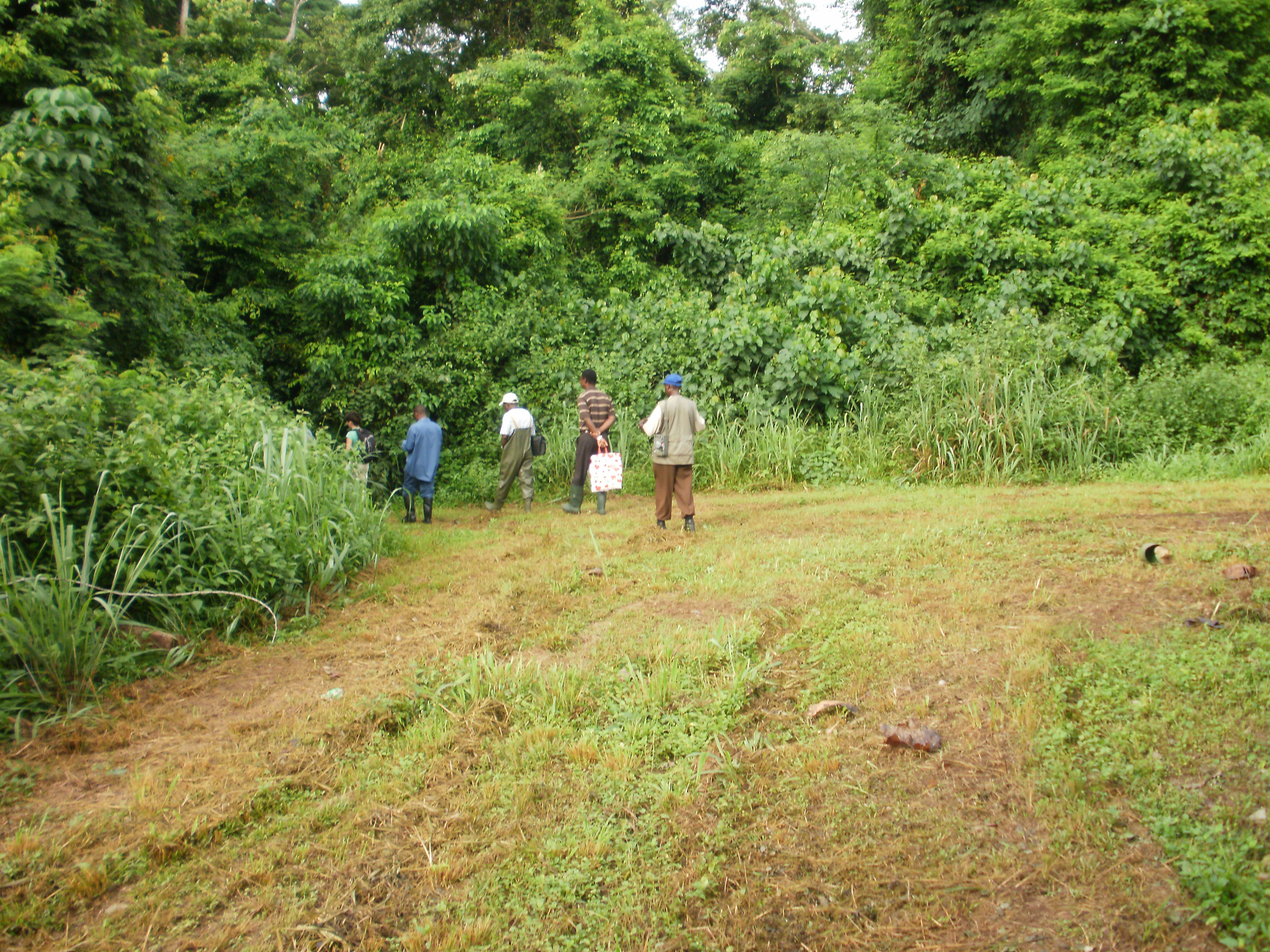 Entrance to Bia Forest reserve in the Western Region